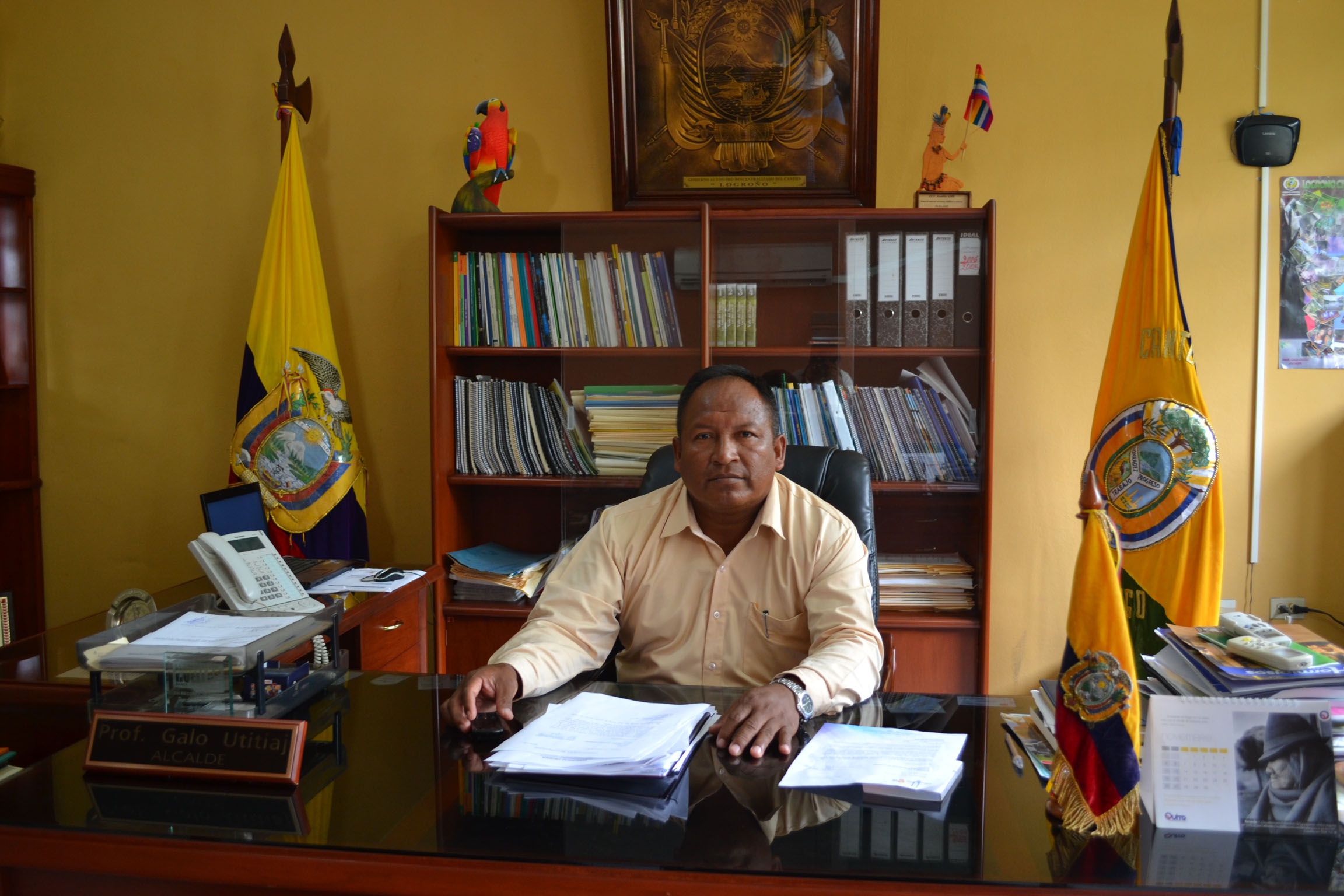 Mayor of Logroño, Galo Utitiaj from Shimpis (2009-2013)